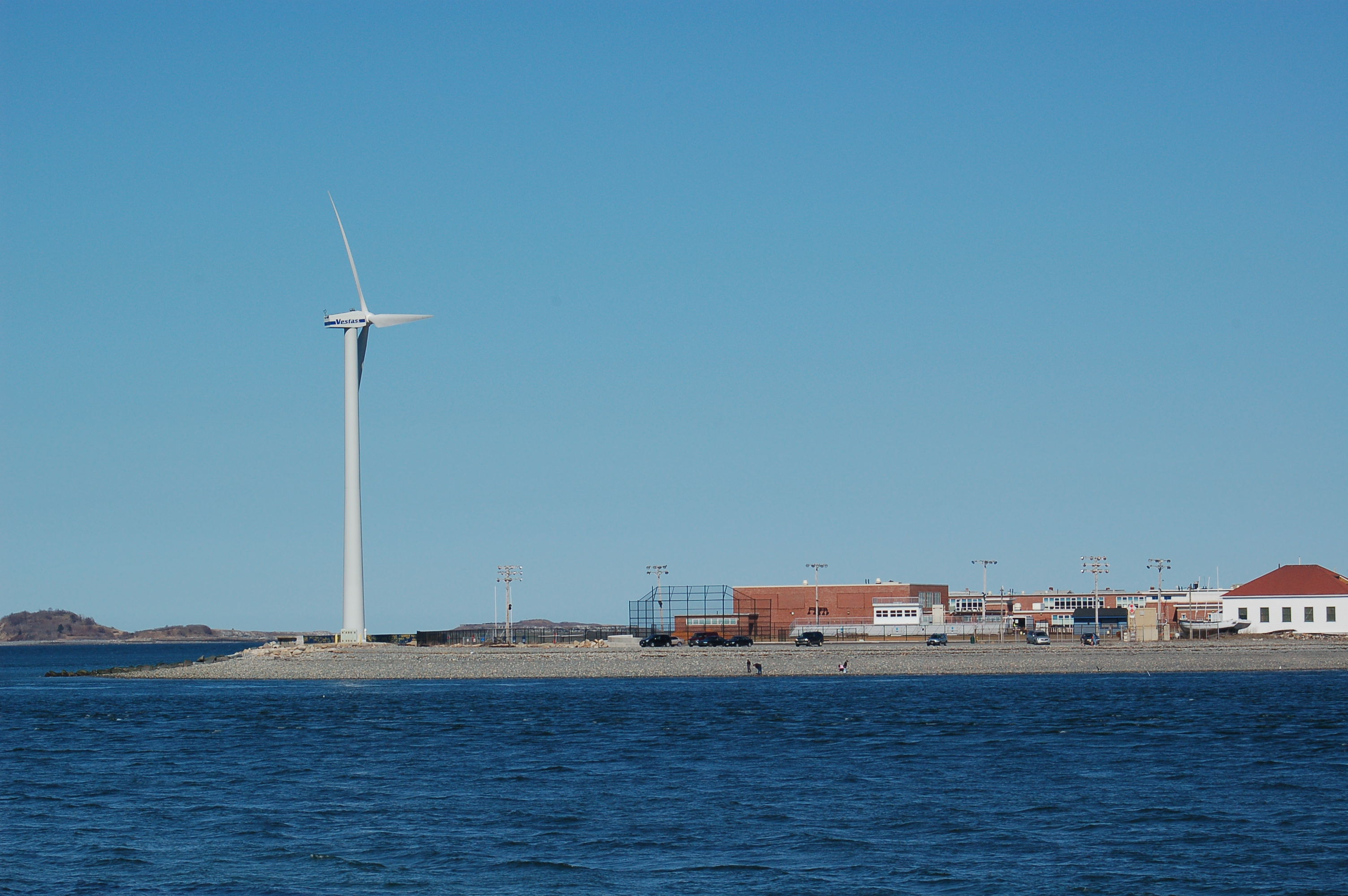 The first wind turbine in the town of Hull, Massachusetts, next to the high school. Photo taken from Peddocks Island.